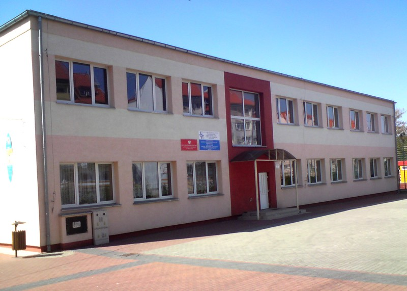 Building of the Teacher's Study in Gryfice (Poland)